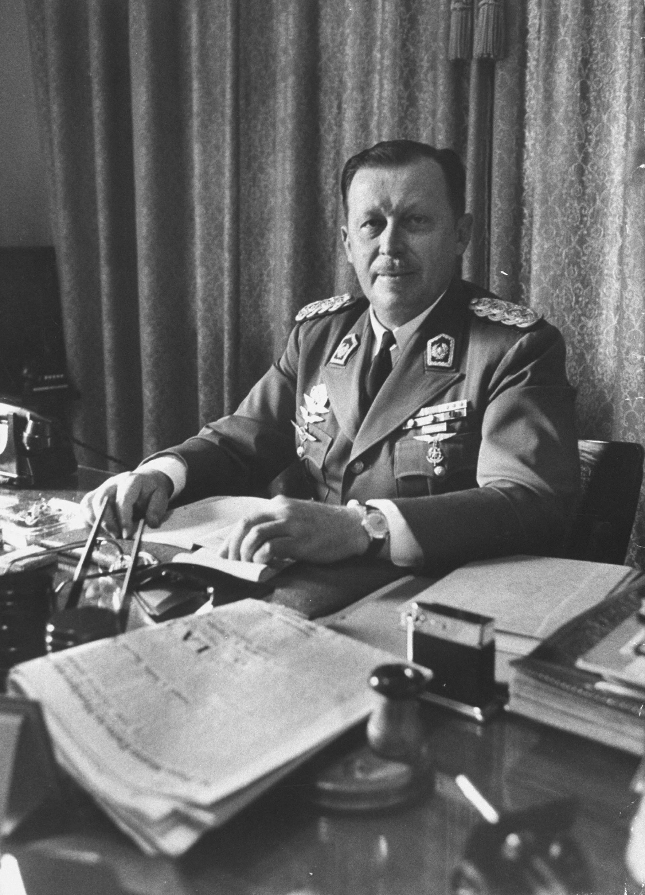 Alfredo Stroessner Matiauda (1912–2006) was a Paraguayan military officer who served as President of Paraguay from 1954 to 1989.